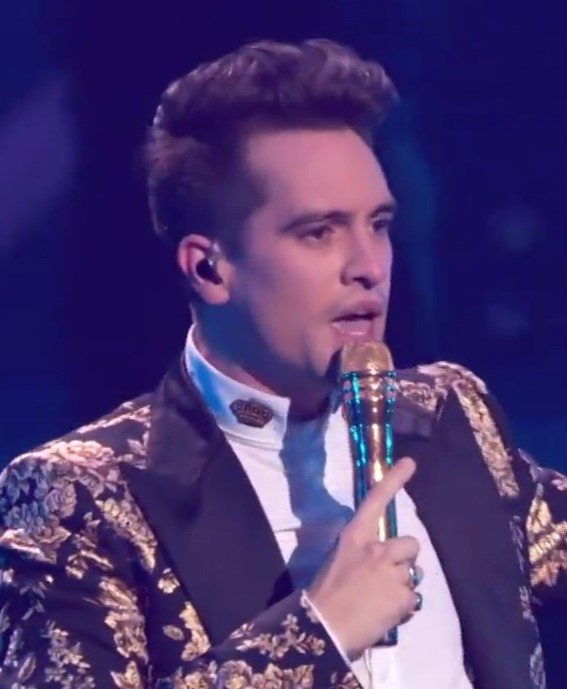 Brendon Urie, the lead singer of Panic! At The Disco, performing "High Hopes" at the 2018 MTV Video Music Awards